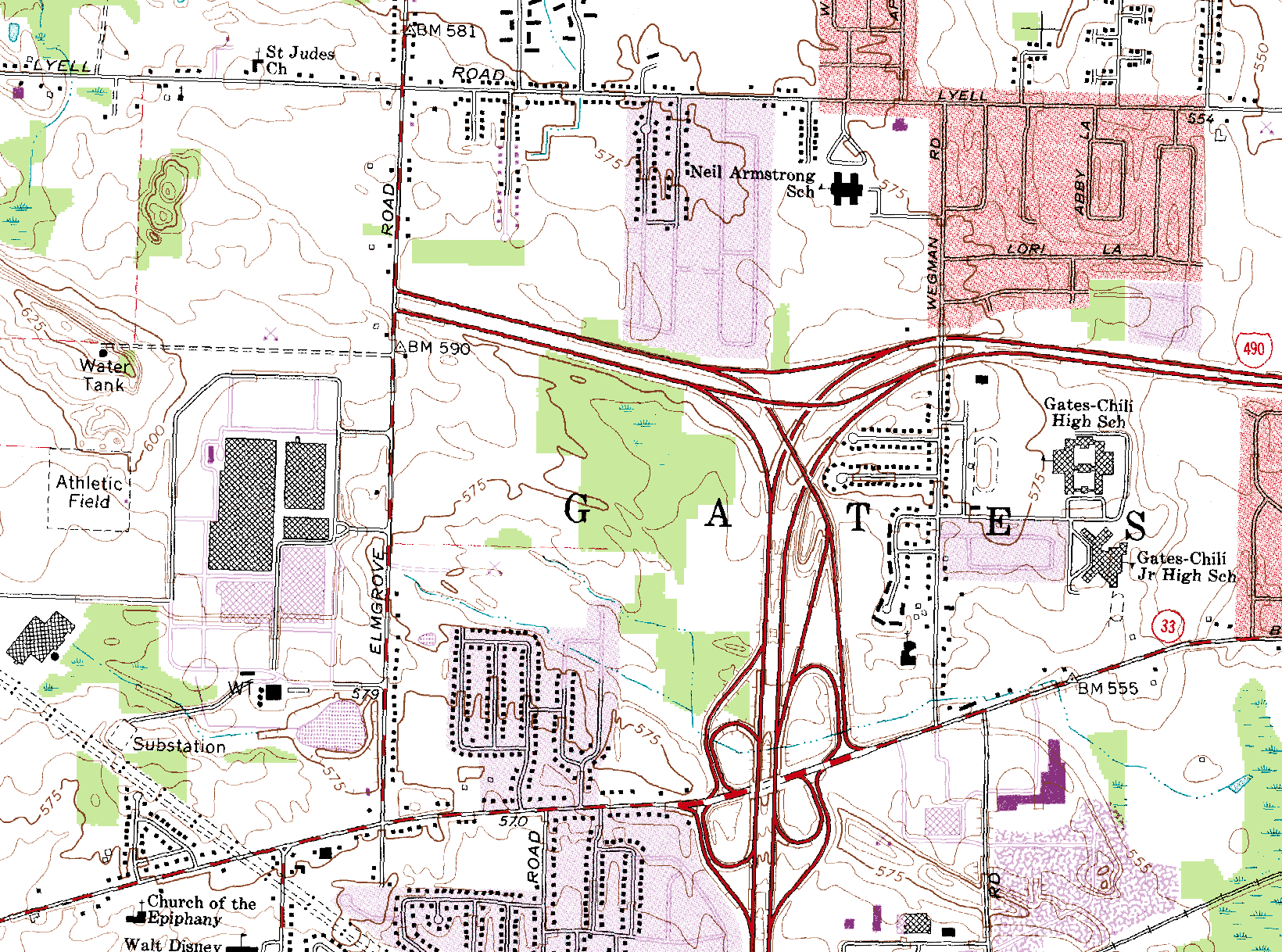 Cropped version of the United States Geological Survey's 1978 7.5 Minute quadrangle of Rochester (west), New York. This cropped picture focuses on New York State Route 940P, the expressway stub off Interstate 490 that later became part of New York State Route 531.